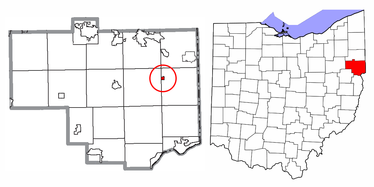 Map highlighting Village of Rogers, Columbiana County, Ohio.